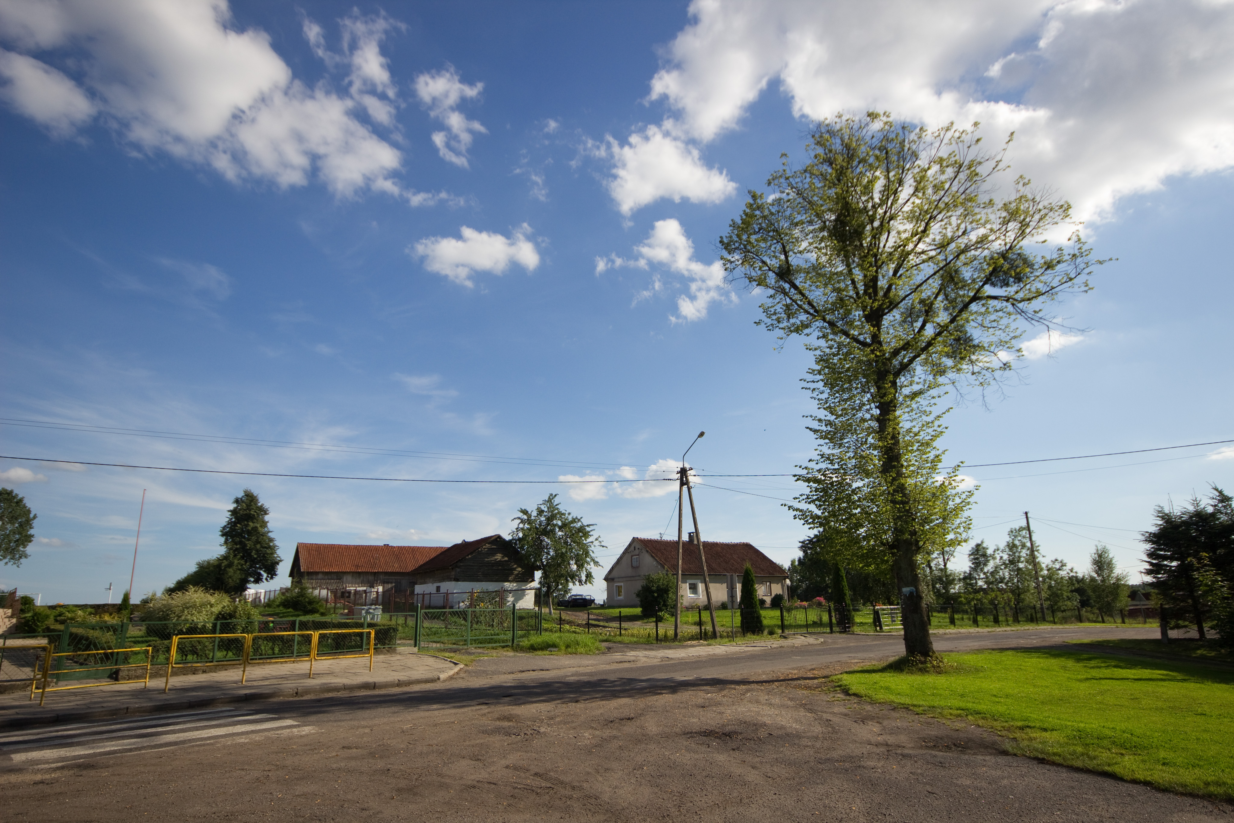 Rodnowo, gmina Bartoszyce, powiat bartoszycki, Warmian-Masurian Voivodeship